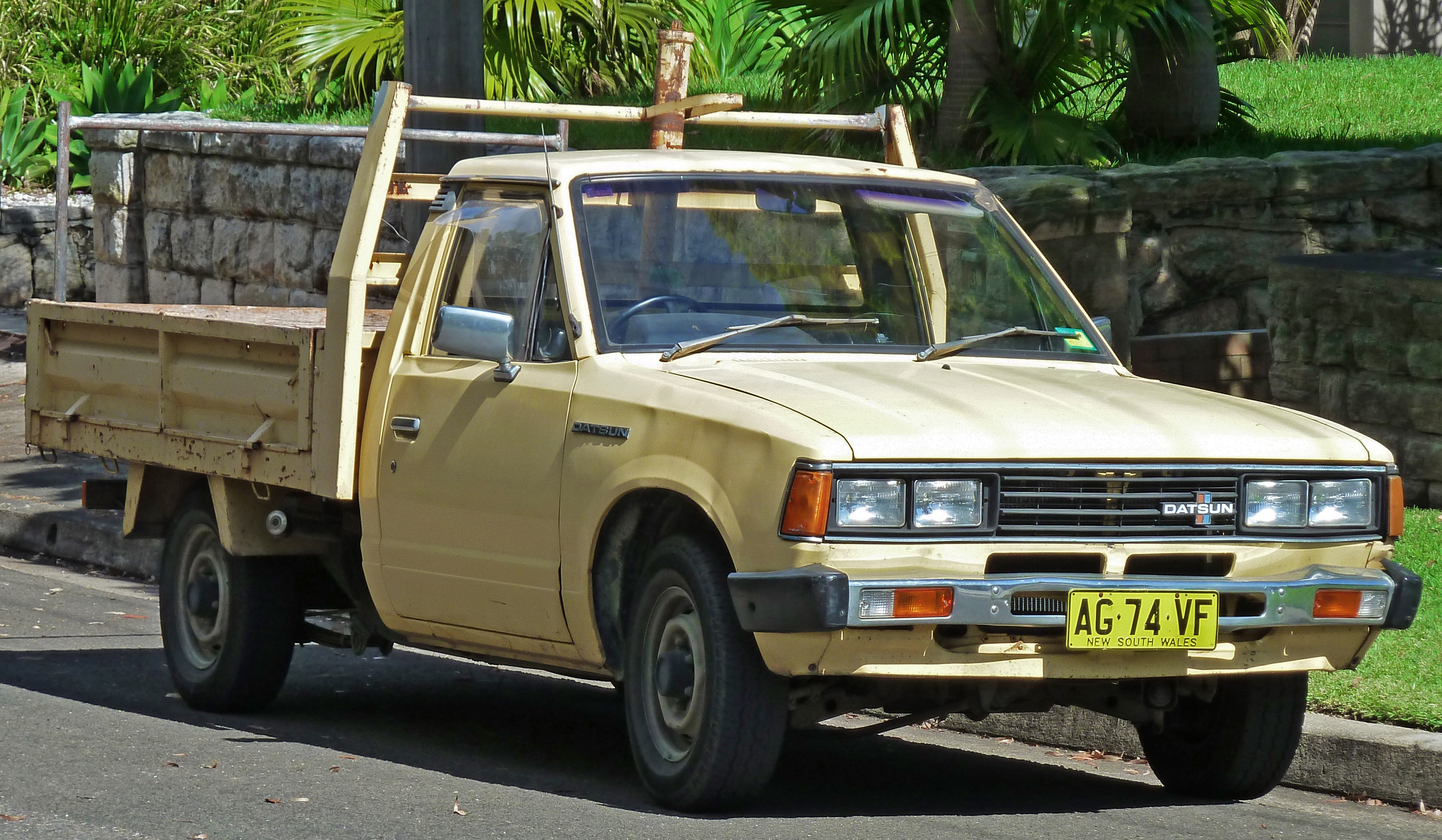 1982 Datsun 720 2-door cab chassis. Photographed in Blakehurst, New South Wales, Australia.